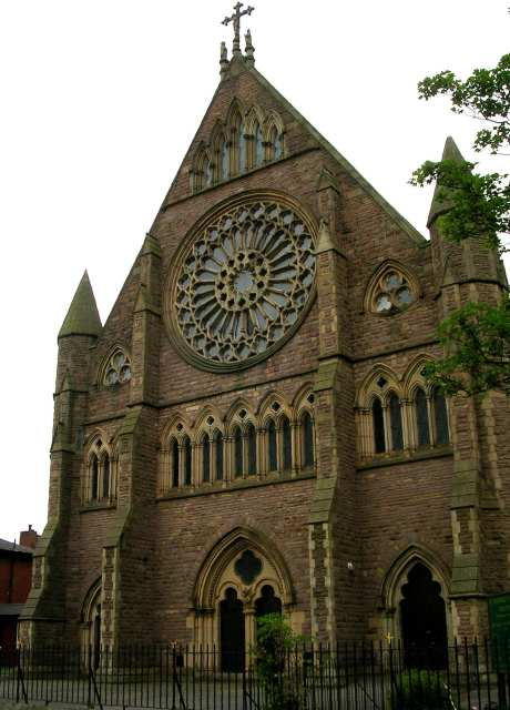 St Walburge's Catholic Church - Weston Street, Preston, Lancashire.